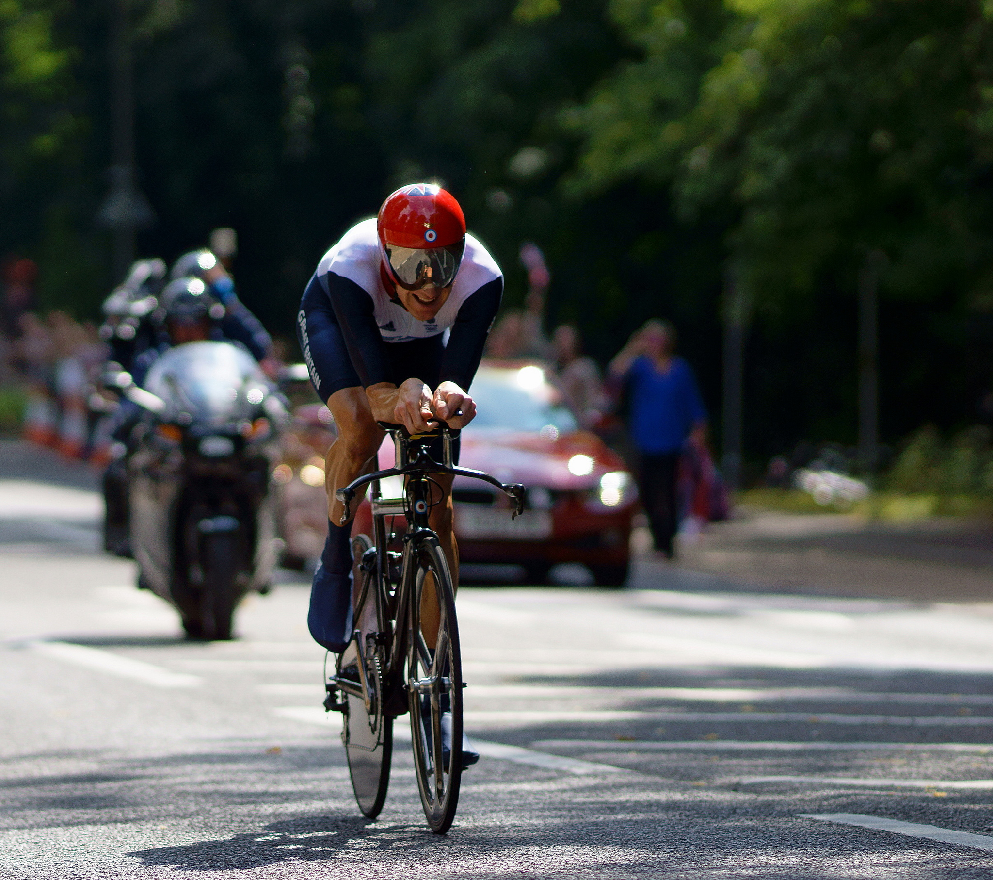 Bradley Wiggins, of team GB, en route to winning the gold medal, in the Olympic Games 2012 time trial. With this outstanding performance, Bradley took his tally of Olympic medals to seven, a record for Great Britain. Photographed outside the Claremont Gardens, to the south of Esher.